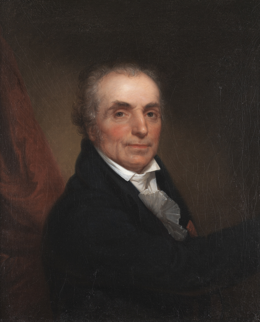 Title Jean Antoine Houdon Date 1808 Medium Oil on canvas Dimensions 28 7/16 x 23 in. (72.2 x 58.4 cm.) Credits General Fund Accession Number 1854.1.3